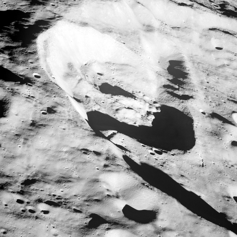 Oblique view of Doppler B crater, within Doppler crater, on the far side of the moon, facing east.